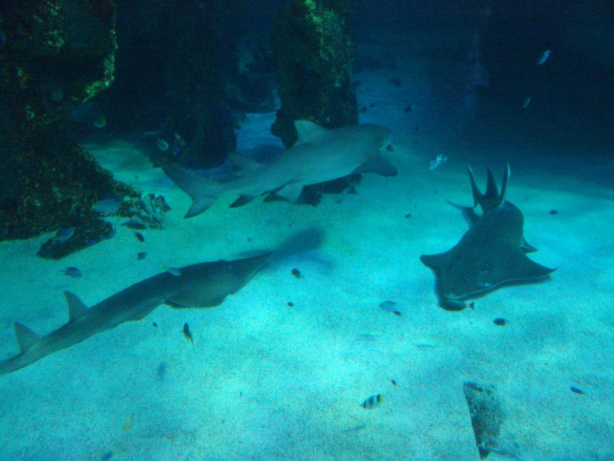 Sydney aquarium, by Dylerpillar found on Flickr